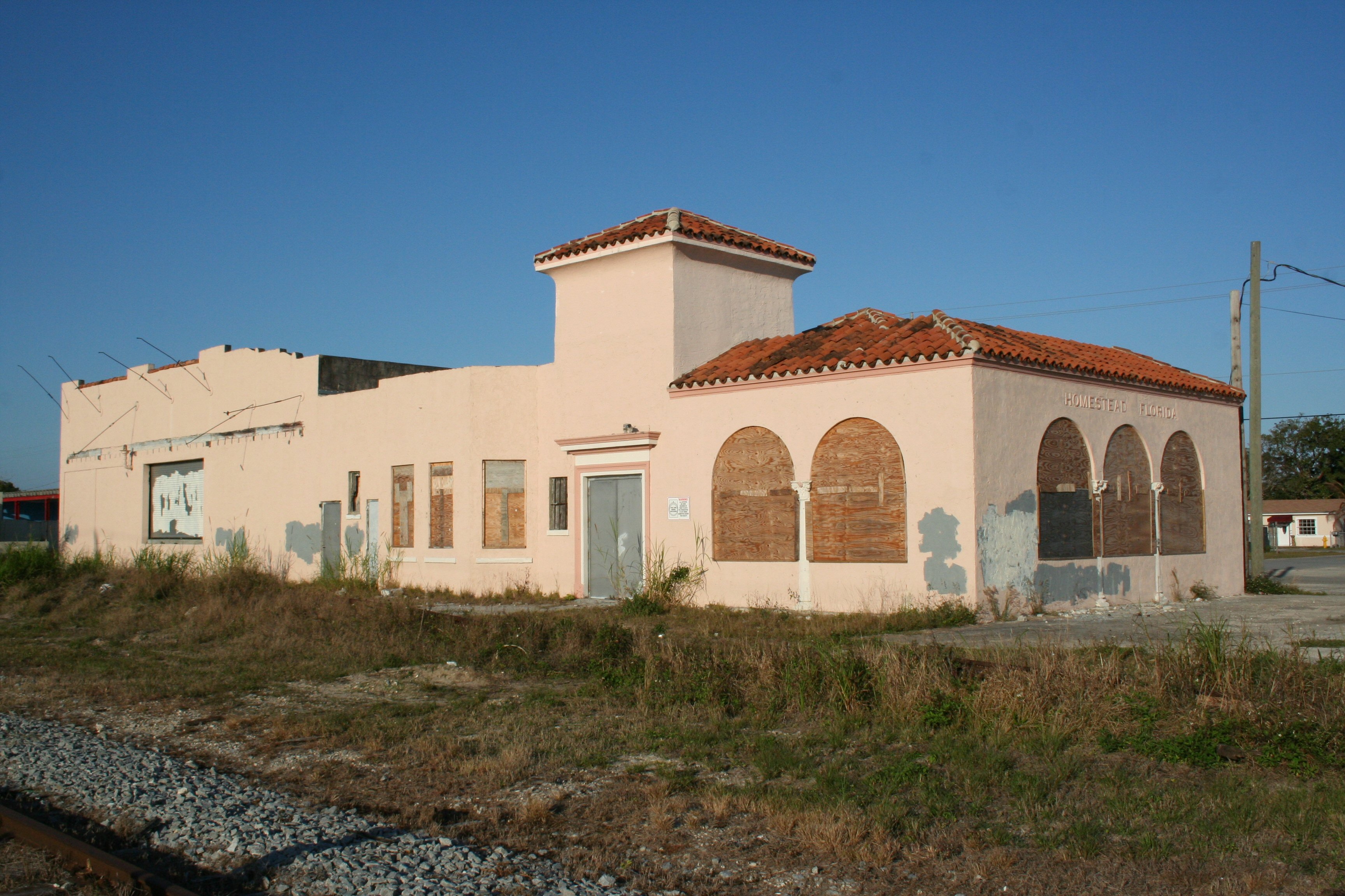 Photograph of old Homestead Seaboard Air Line Railway station